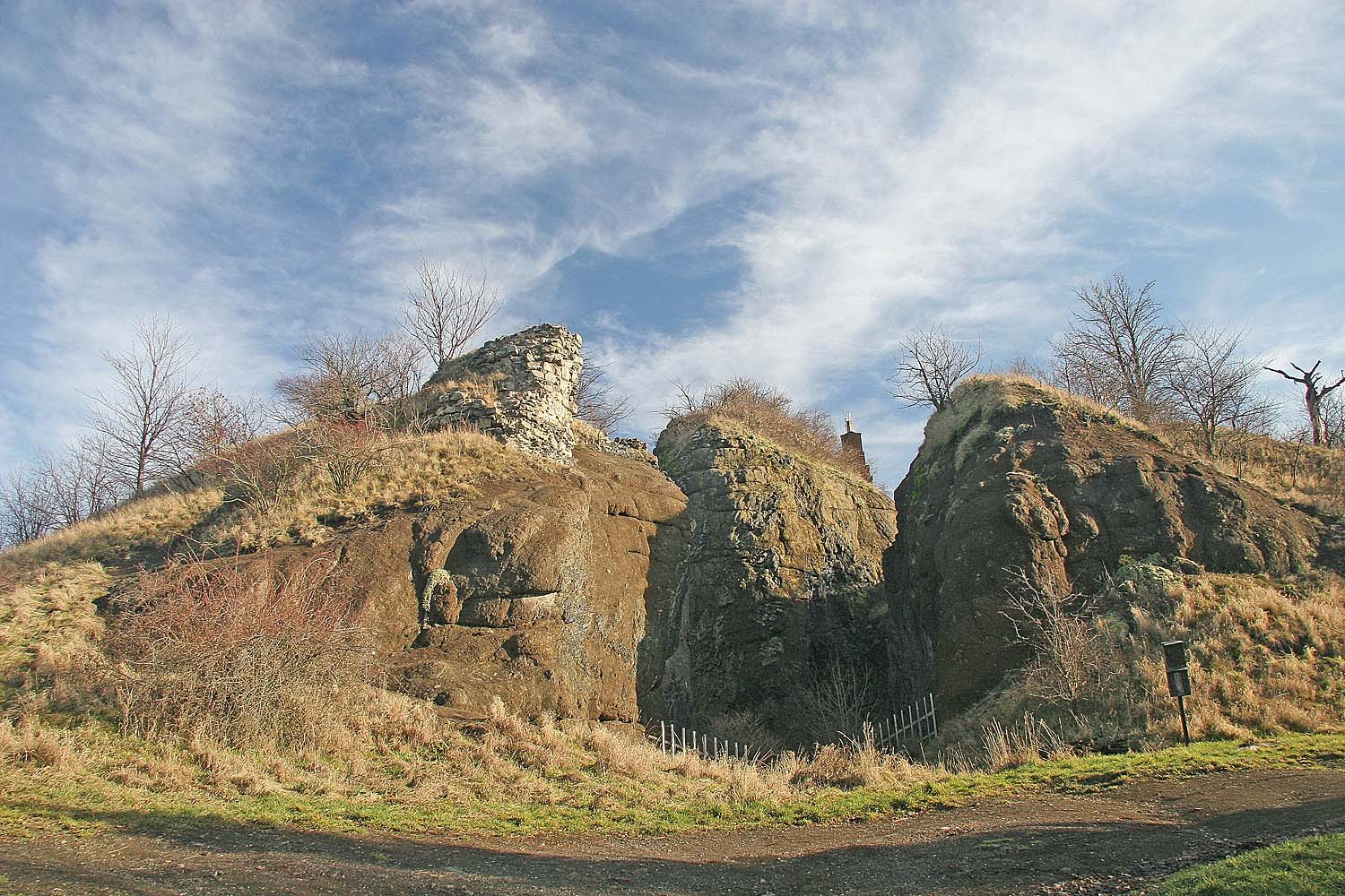 The remnants of castle walls of Veliš, Jičín district